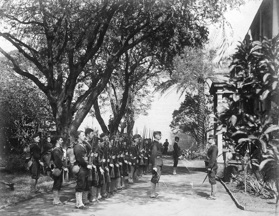 Bluejackets of the U.S.S. Boston occupying Arlington Hotel grounds during overthrow of Queen Liliuokalani. Commander Lucien Young, U.S.N. in command of troops. Site of childhood home of Queen Liliuokalani. According to the U.S. Naval Historical Center Photograph, the original photograph is in the Archives of Hawaii and this halftone was published prior to about 1920.